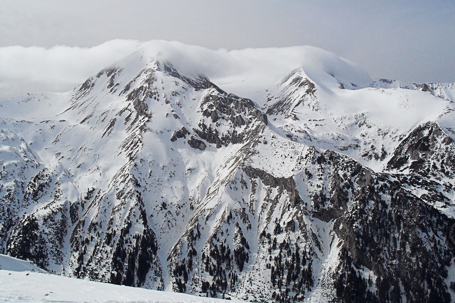 Pirin mountains in Bulgaria. This is the West side scenery from Bansko ski resort